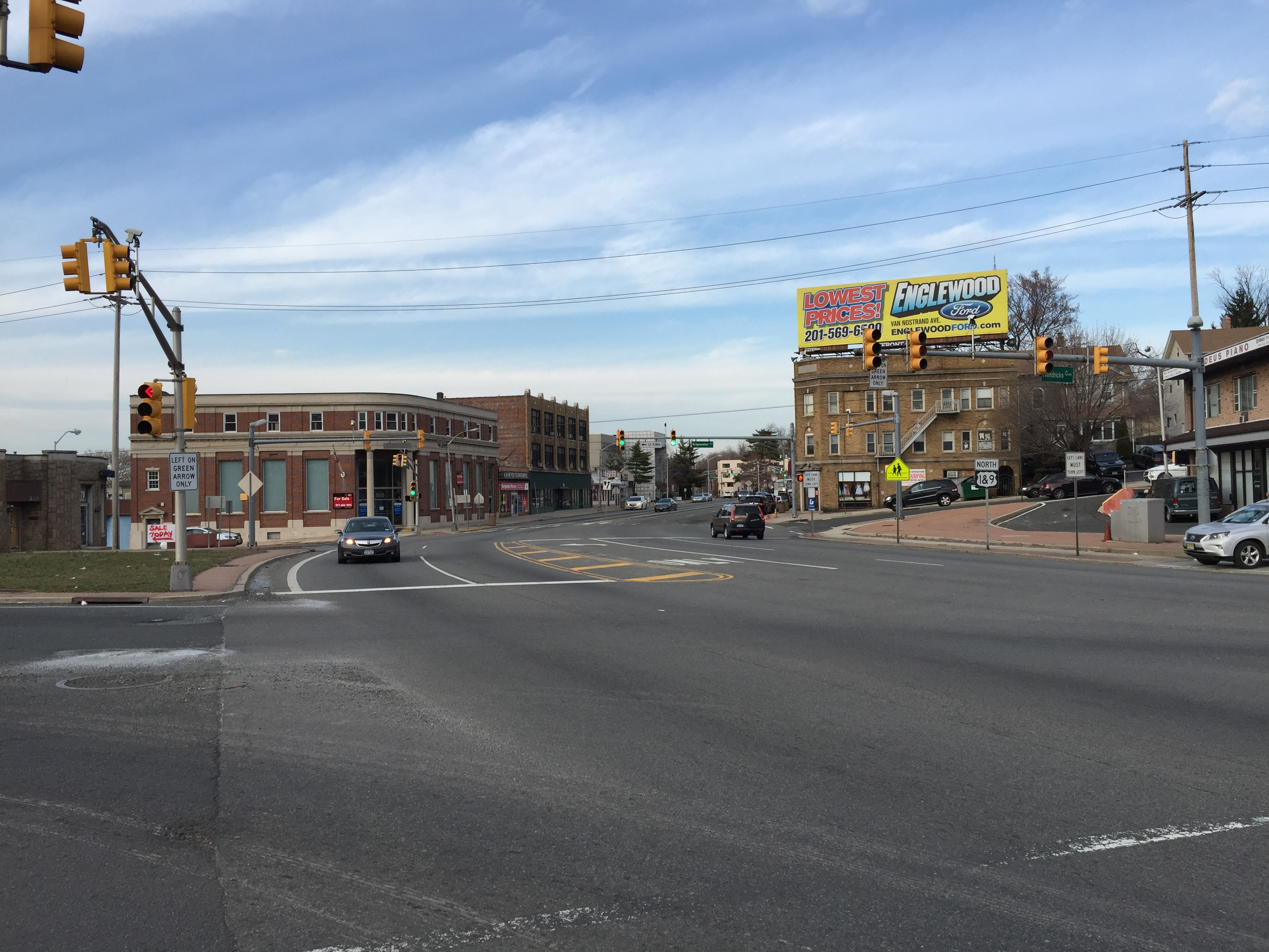 View north along U.S. Route 1 and U.S. Route 9 (Broad Avenue) at Bergen County Route 124 (Hendricks Causeway) in Ridgefield, Bergen County, New Jersey